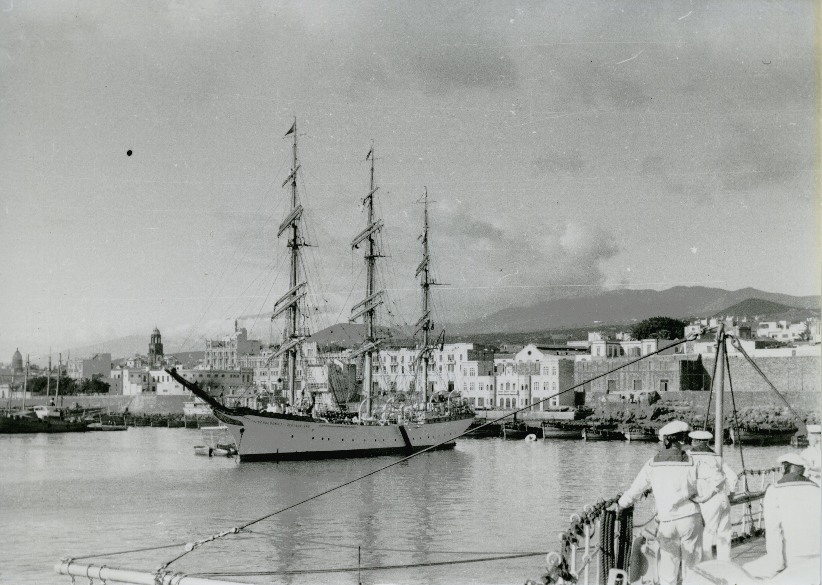 Schulschiff Deutschland in the harbor of St. Cruz. Picture taken in October/November 1937, taken from SMS Schlesien. See also: Spraul, G.: "Vom Fähnlein zur Fahne in den Tod", ISBN 978-3-86634-502-7, p. 264ff